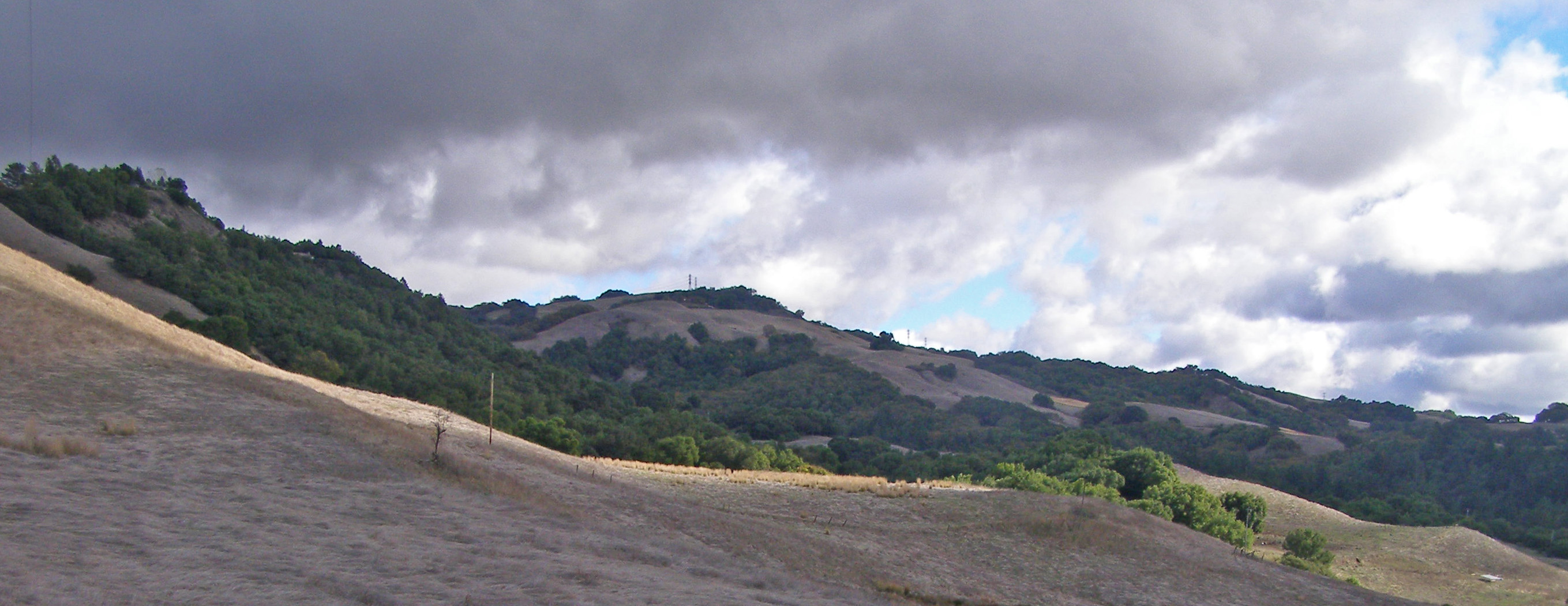 photographer:self